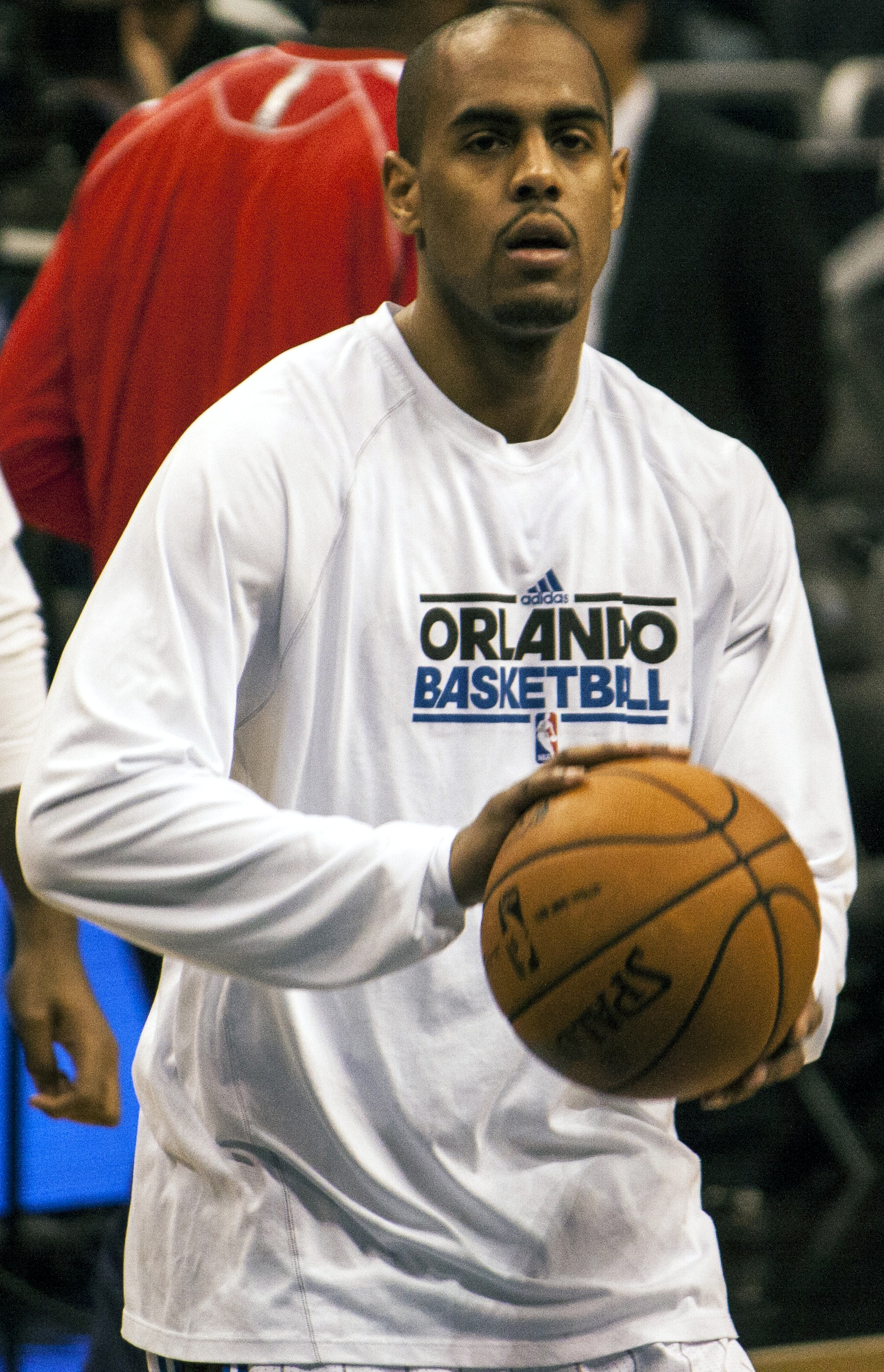 Arron Afflalo of the Orlando Magic